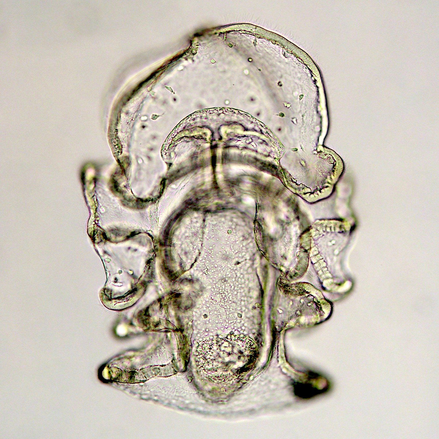 Planktonic larva of a holothuroid (sea cucumber).